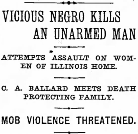 The Courier-Journal. 6 Jul 1908.